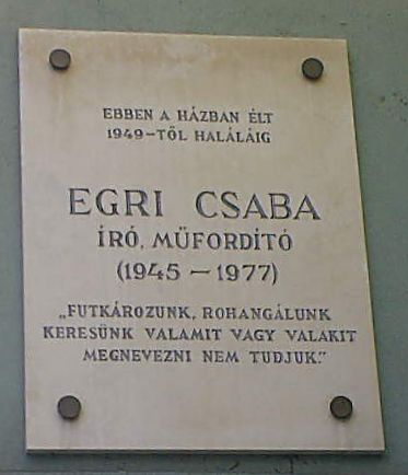 Csaba Egri commemorative plaque in Budapest District XII, Csaba Street No 9